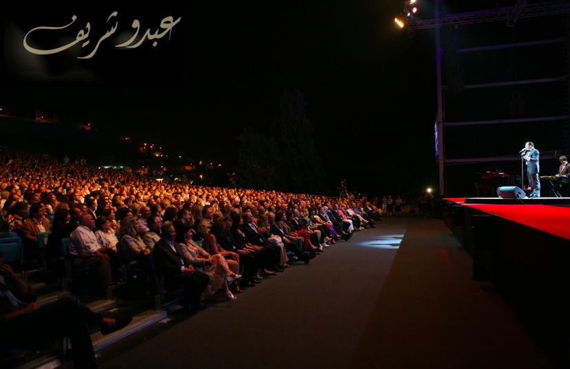 Abdou Cherif performing at the Beiteddine Festival 2010